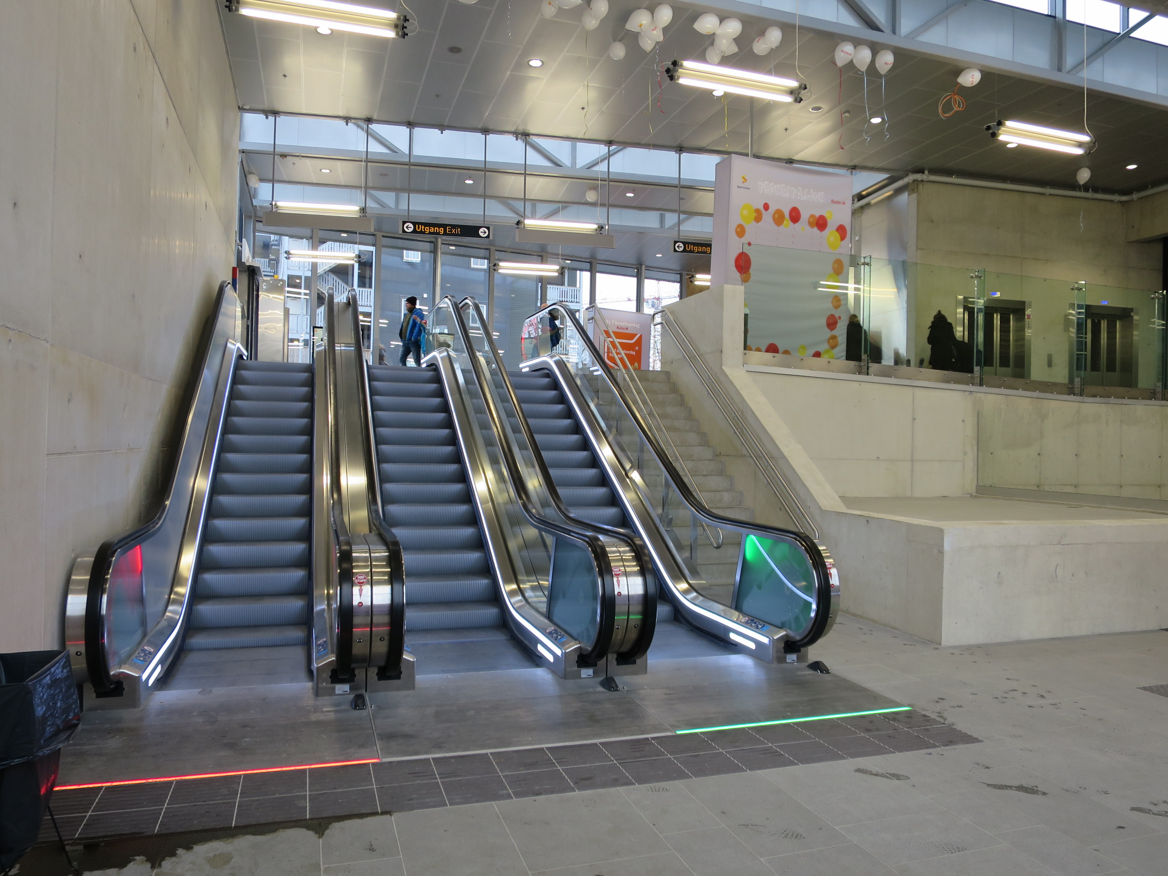 Løren subway station, Oslo, Norway, an underground rapid transit station of the Oslo Metro. Opened in April 2016 it is the newest on the subway network.